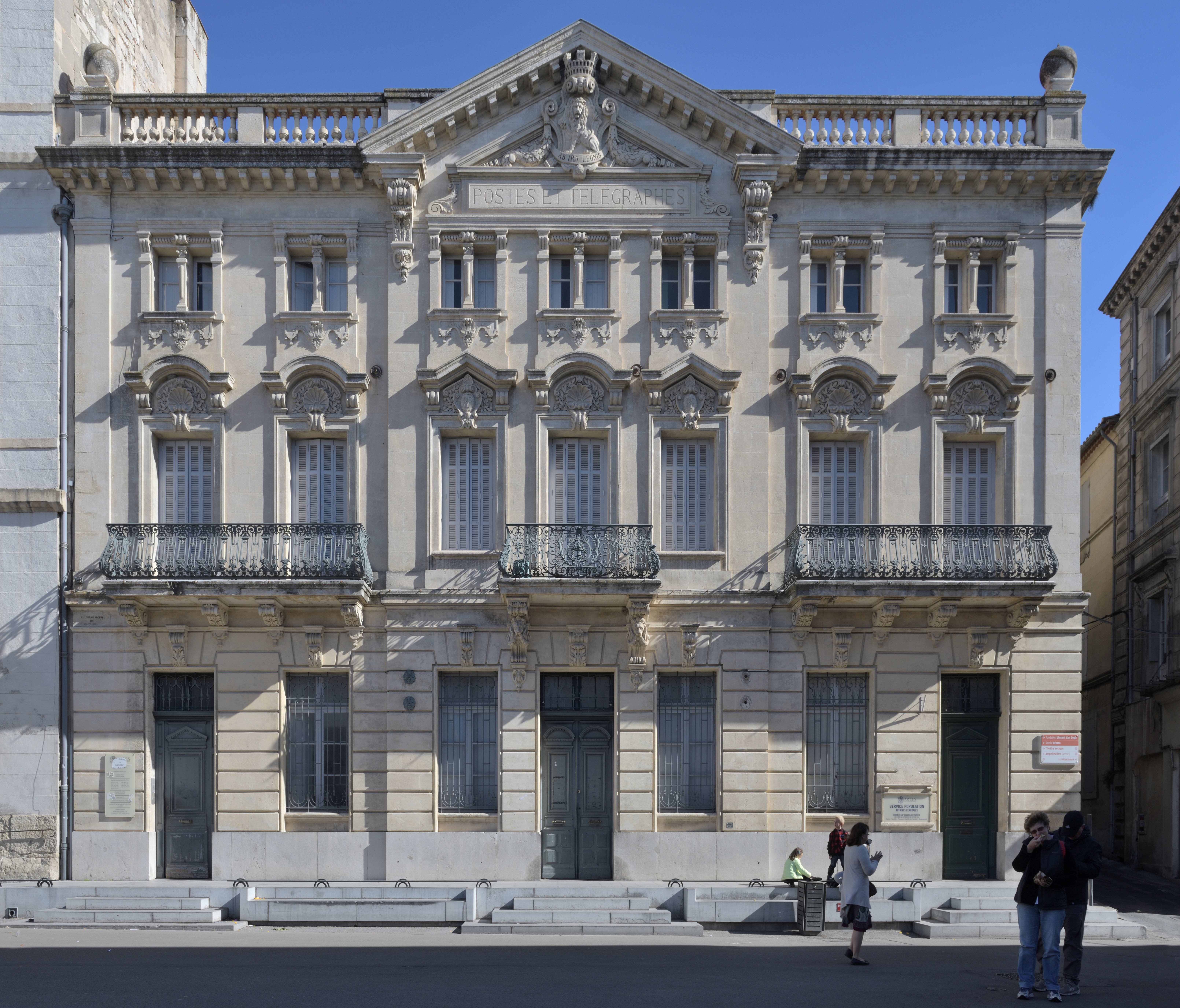 The Hôtel des postes building on the Place de la Republique in Arles. Build 1898.